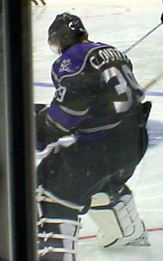 Goaltender Dan Cloutier of the Los Angeles Kings during a pregame warmup in September 2006.